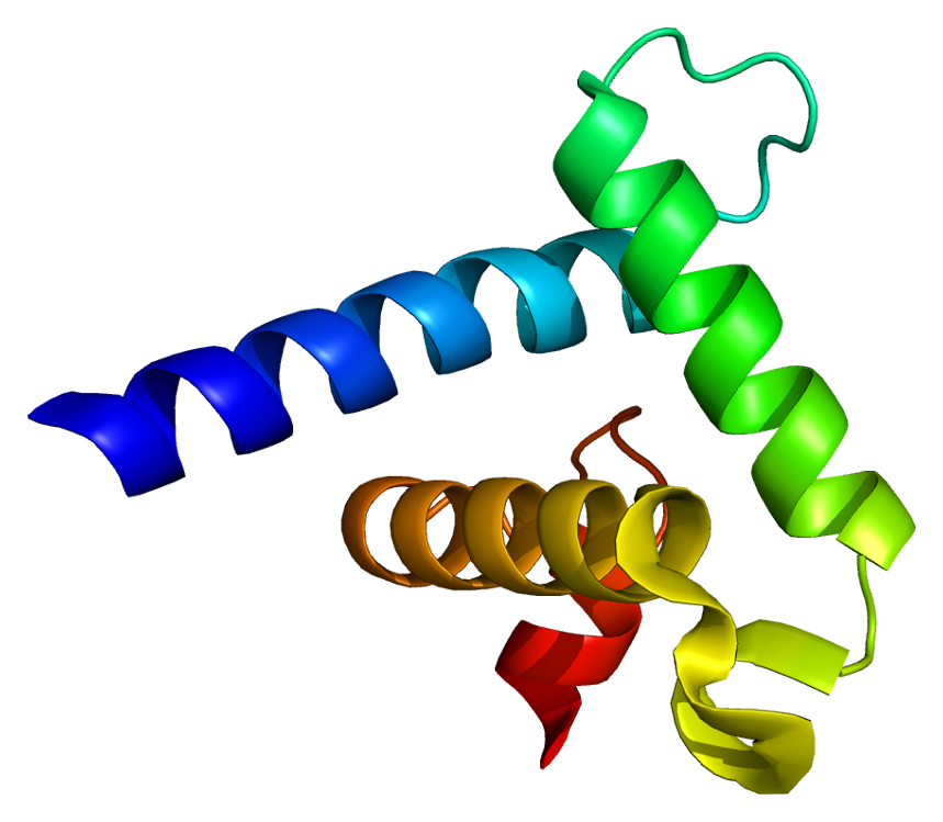 Structure of the TAZ2 domain (amino acids 1764-1850) of the mouse CREBBP protein. Based on PyMOL rendering of PDB 1f81.